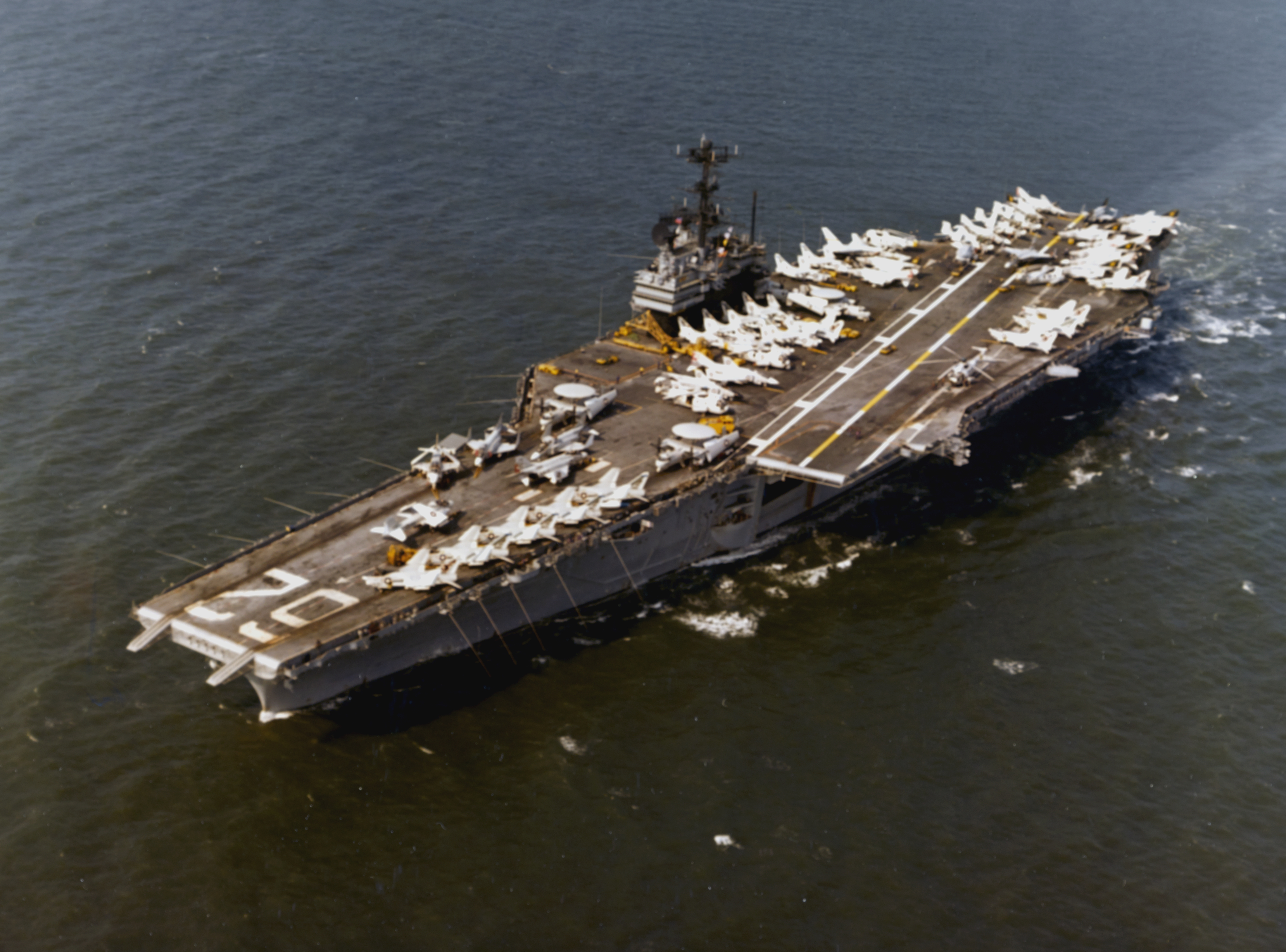 The U.S. Navy aircraft carrier USS Independence (CVA-62) underway. The photo was most probably taken during the deployment from 16 September 1971 to 16 March 1972 as the air wing (Attack Carrier Air Wing 7) is already equipped with LTV A-7 Corsair IIs, but to yet with the Grumman S-2 Tracker.